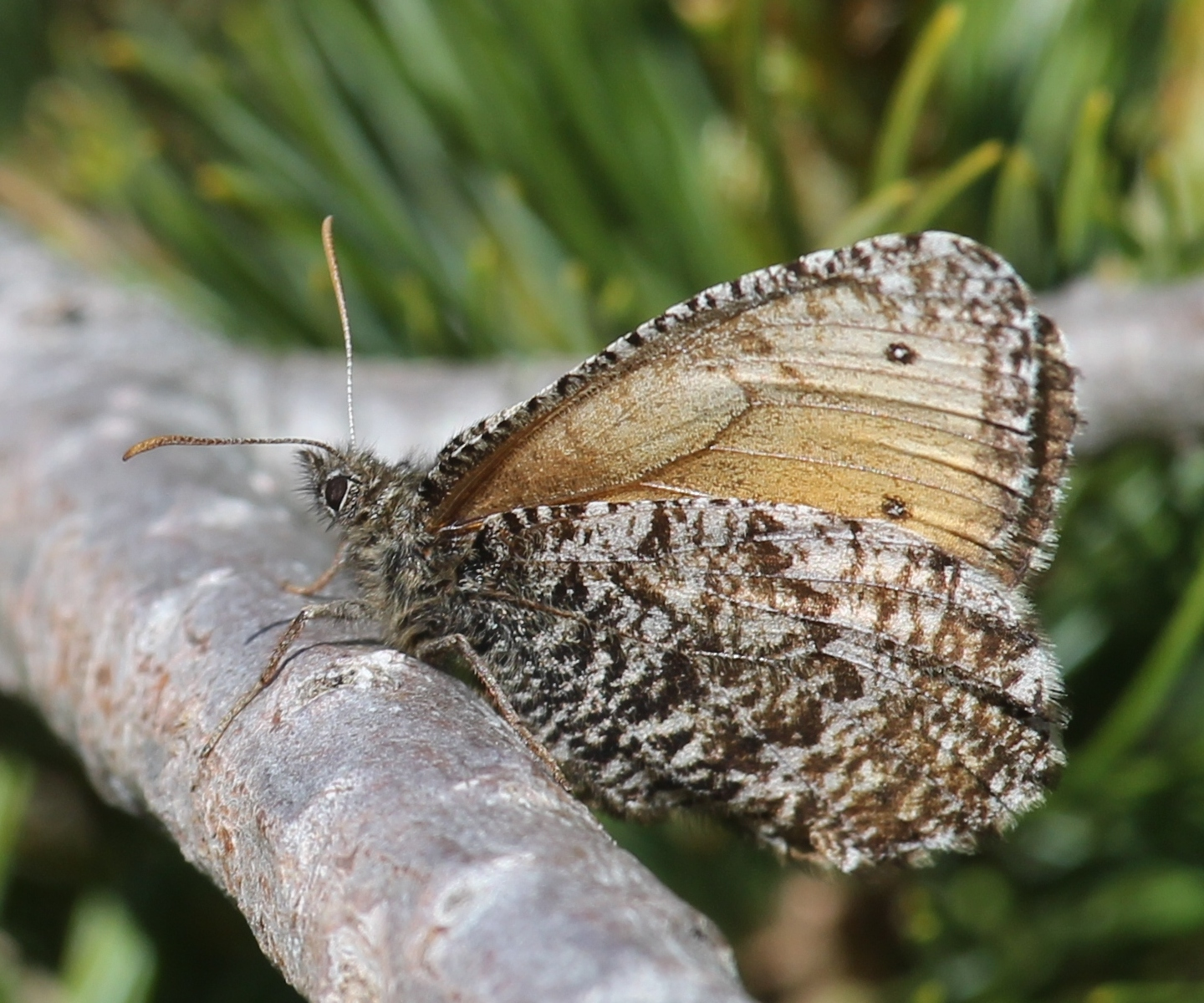 Oeneis norna asamana in Mount Chō, Hida Mountains, Nagaono prefecture, Japan.